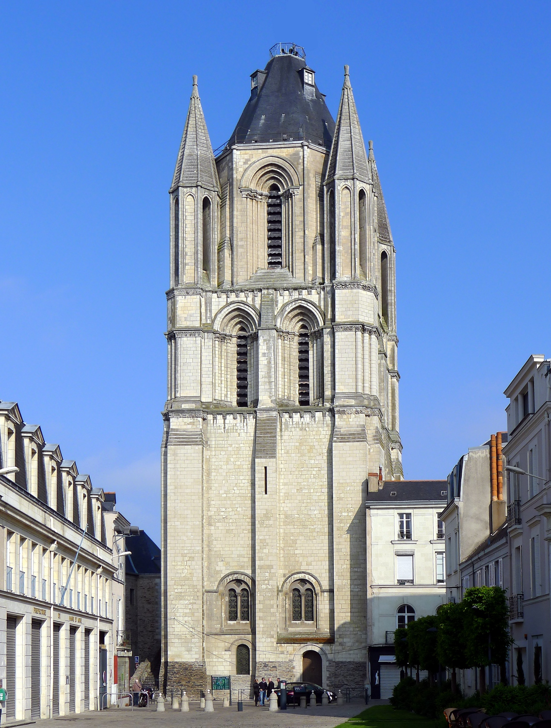 Saint-Aubin tower (Angers, France)